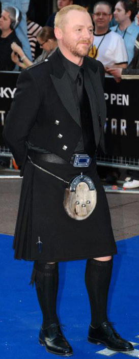 Simon Pegg at a Star Trek premiere in London.